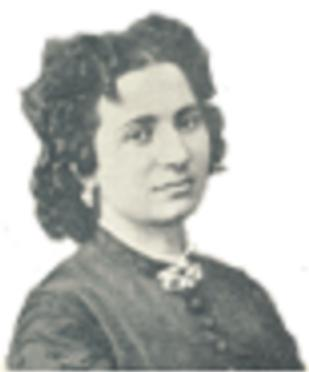 Srpouhi Dussap (née Vahanyan) (1840-1901)